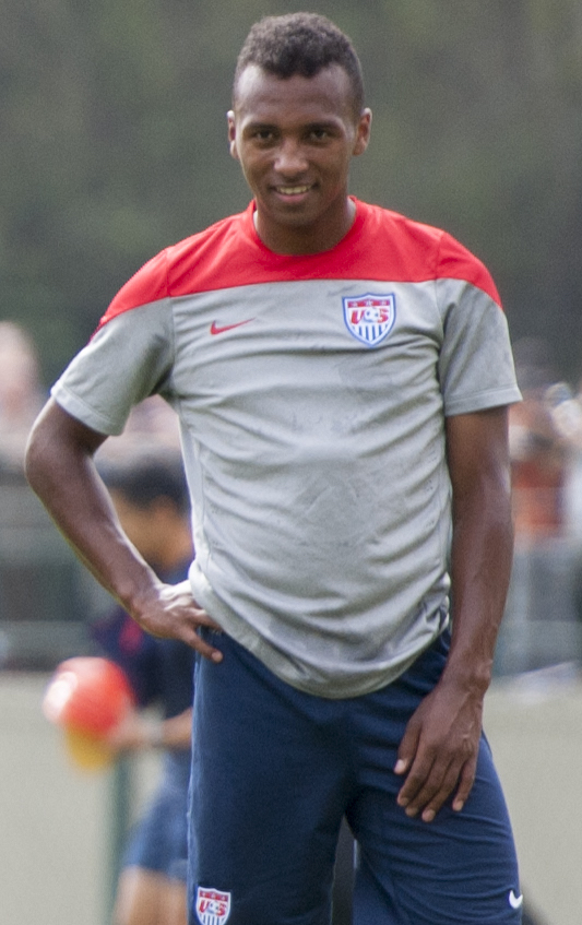 This file has been extracted from another file: USMNT training 2014 Brazil (15096232789).jpg